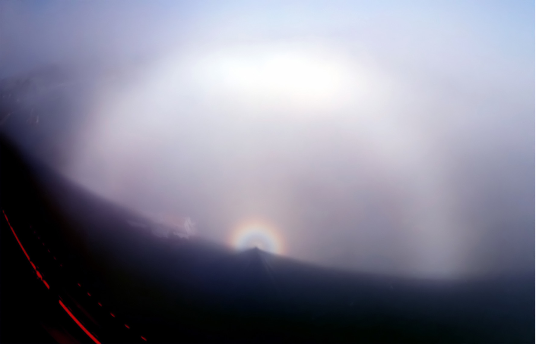 The picture was taken from Golden Gate Bridge. The picture shows solar glory, Spectre of the Brocken and Fog Bow